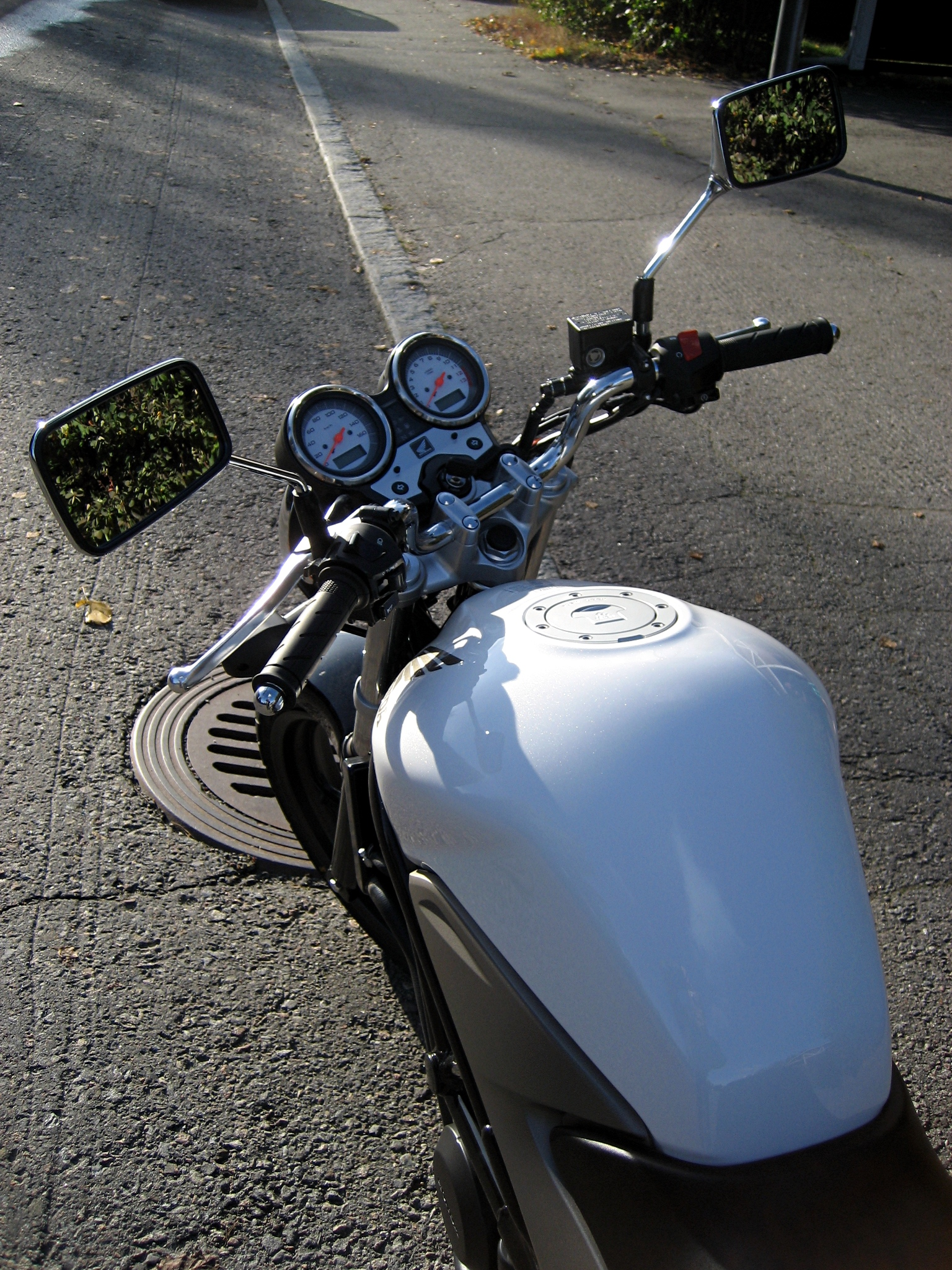 Honda's entry level 250cc class motorcycle, VTR250. This is the 2009 model with fuel injection.